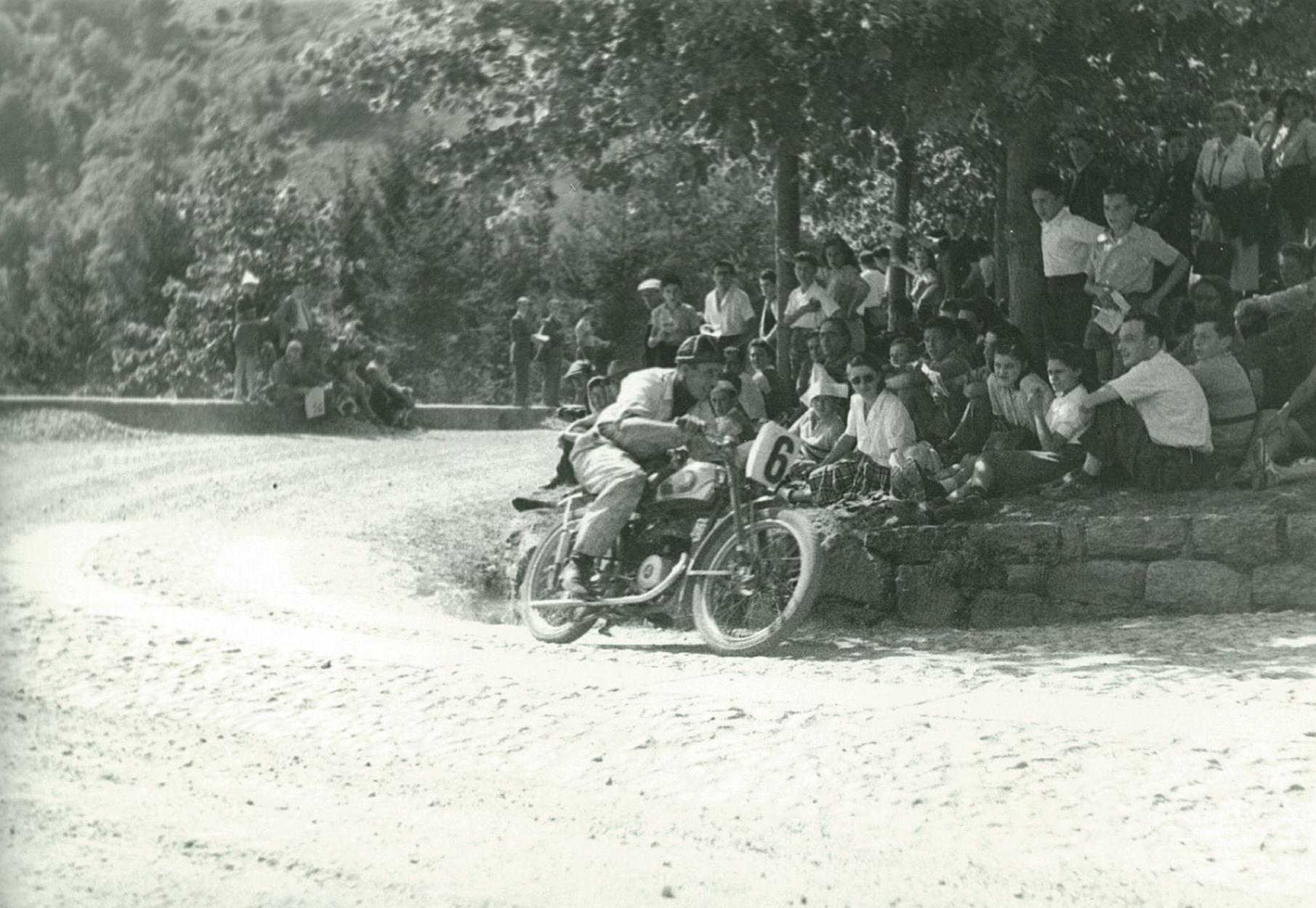 The Italian motorcycle racing. MV Agusta 98. 1946.